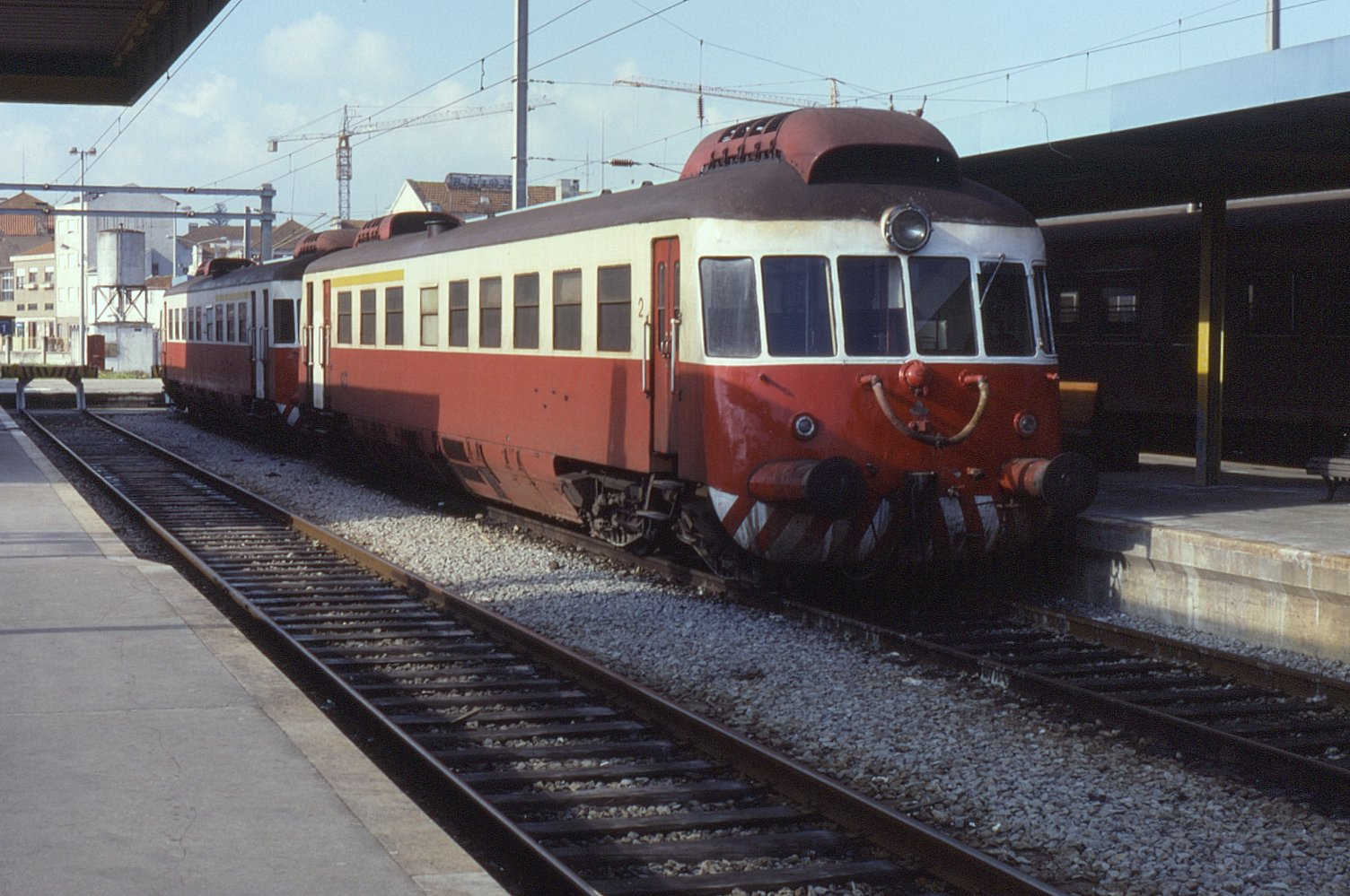 Dutch builder Allan railcars dating back to the 1950s. Seen here at Figueira da Foz on 28 November 1990 are nos. 0301 and 0318 on 12:27 Figueira da Foz to Coimbra.